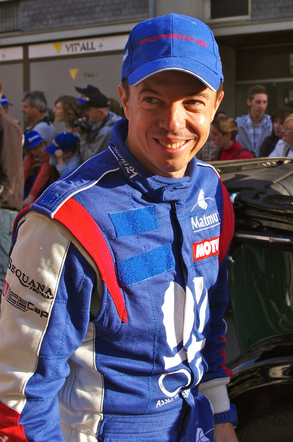 Jean-Philippe Beloc at the Le Mans 24 Hours 2011 Drivers' Parade